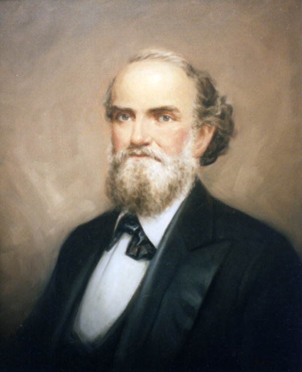 Painted portrait of Florida Supreme Court Justice Edwin M. Randall. Edwin M. Randall was born in Canajoharie, New York on April 5, 1822. He served as Florida Supreme Court Justice from 1868 until January 7, 1885. Edwin M. Randall died of Bright's disease on July 12, 1895.